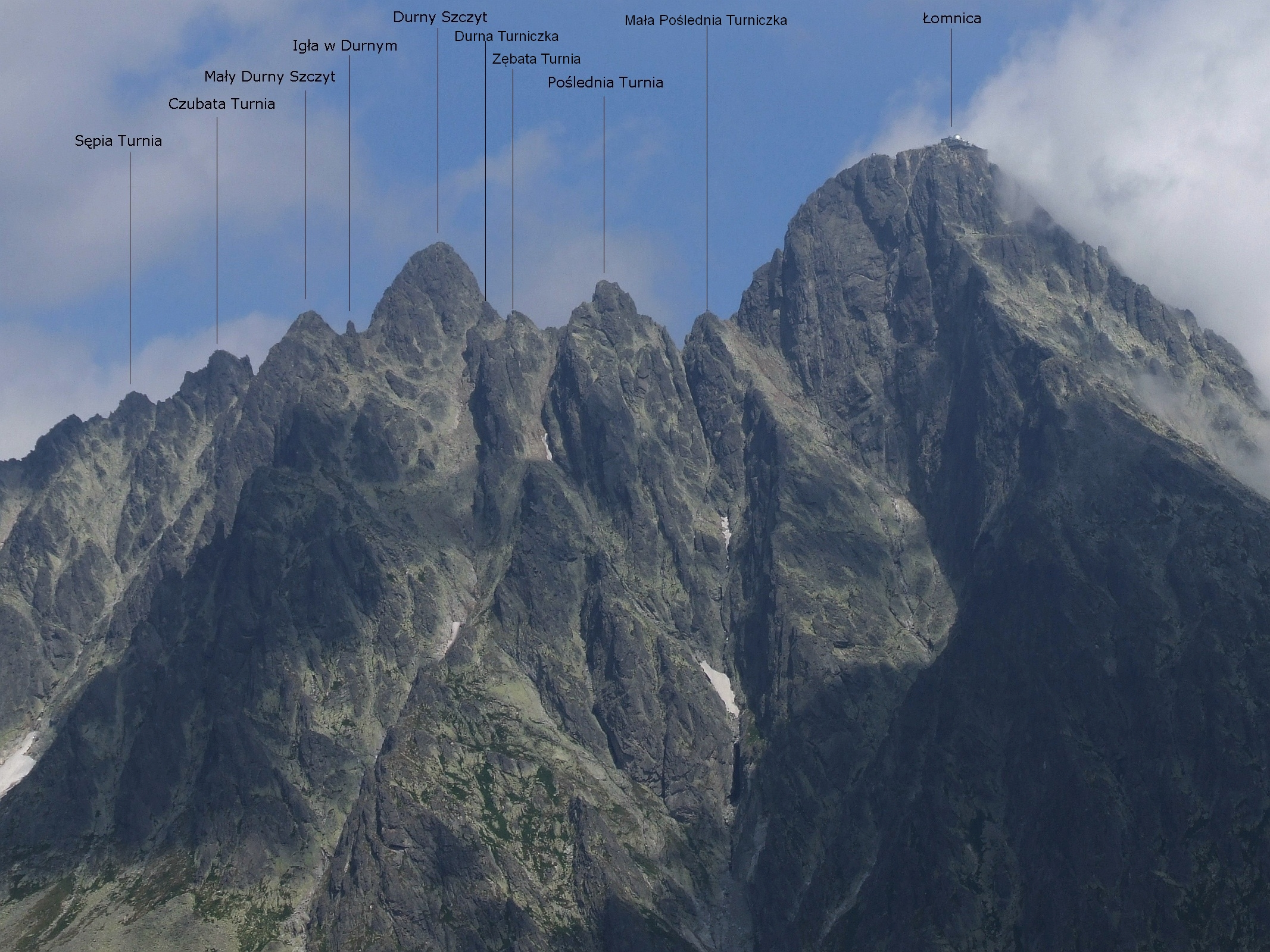 Widok ze Sławkowskiego Szczytu